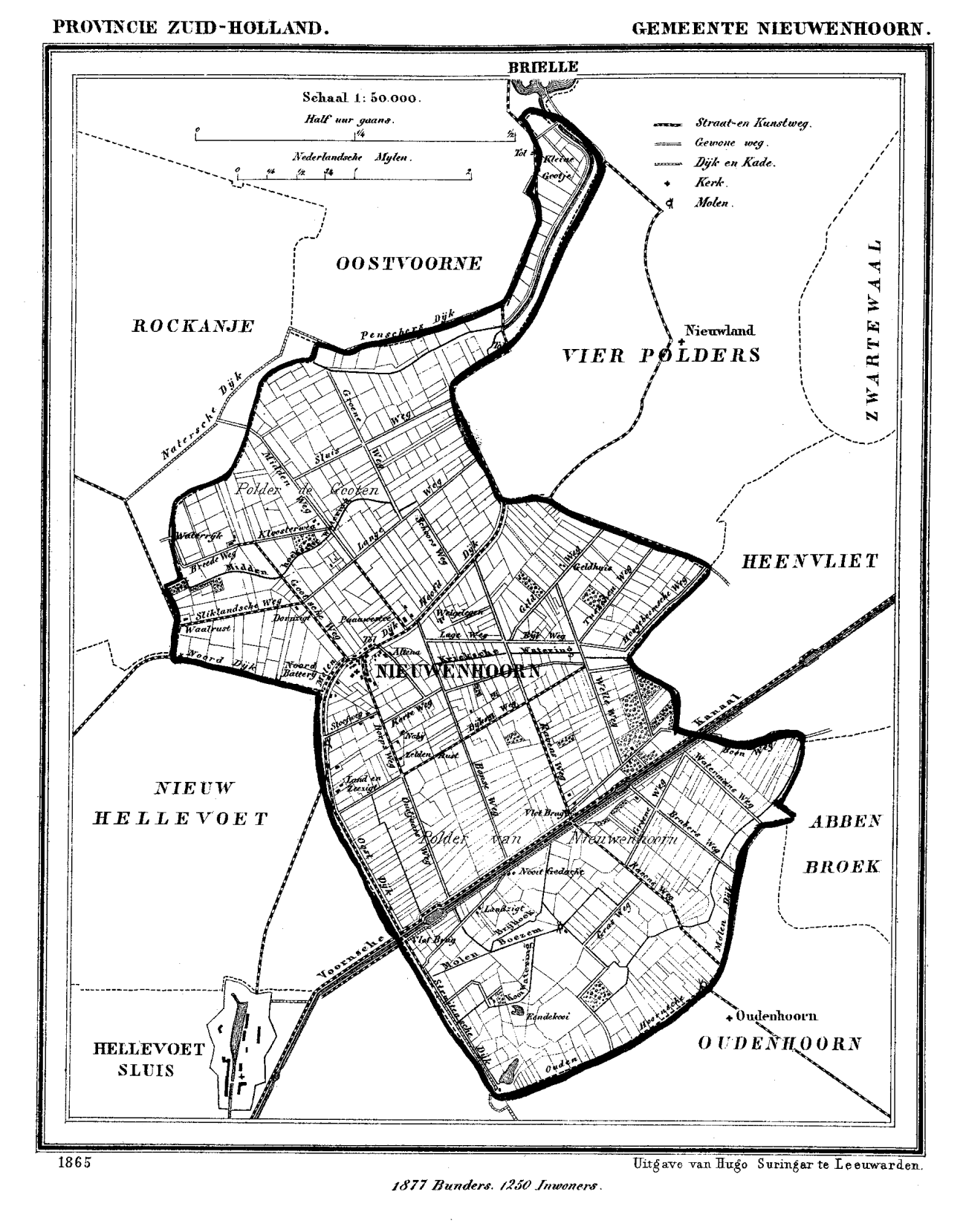 Historic map of Nieuwenhoorn, the Netherlands